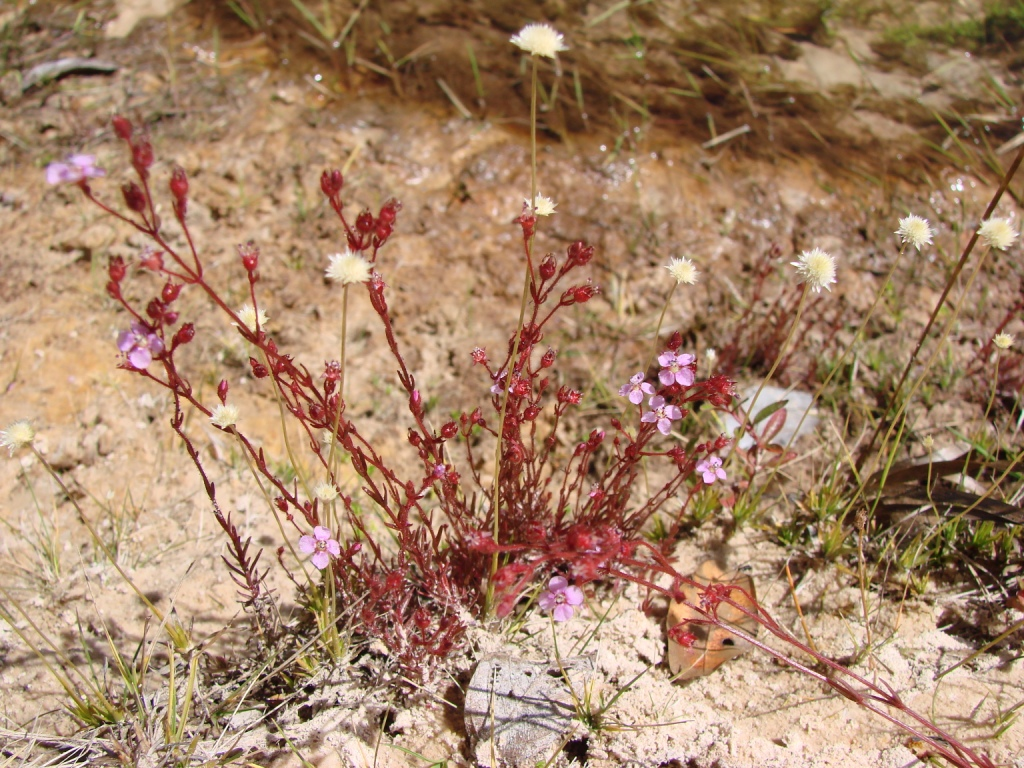 Siphanthera foliosa - MELASTOMATACEAE The diminutive habit and small fugaceous flowers have combined to insure both paucity of collections and difficulty of identification. Grande Sertão Veredas National Park - Chapada Gaúcha - Minas Gerais - Brazil.